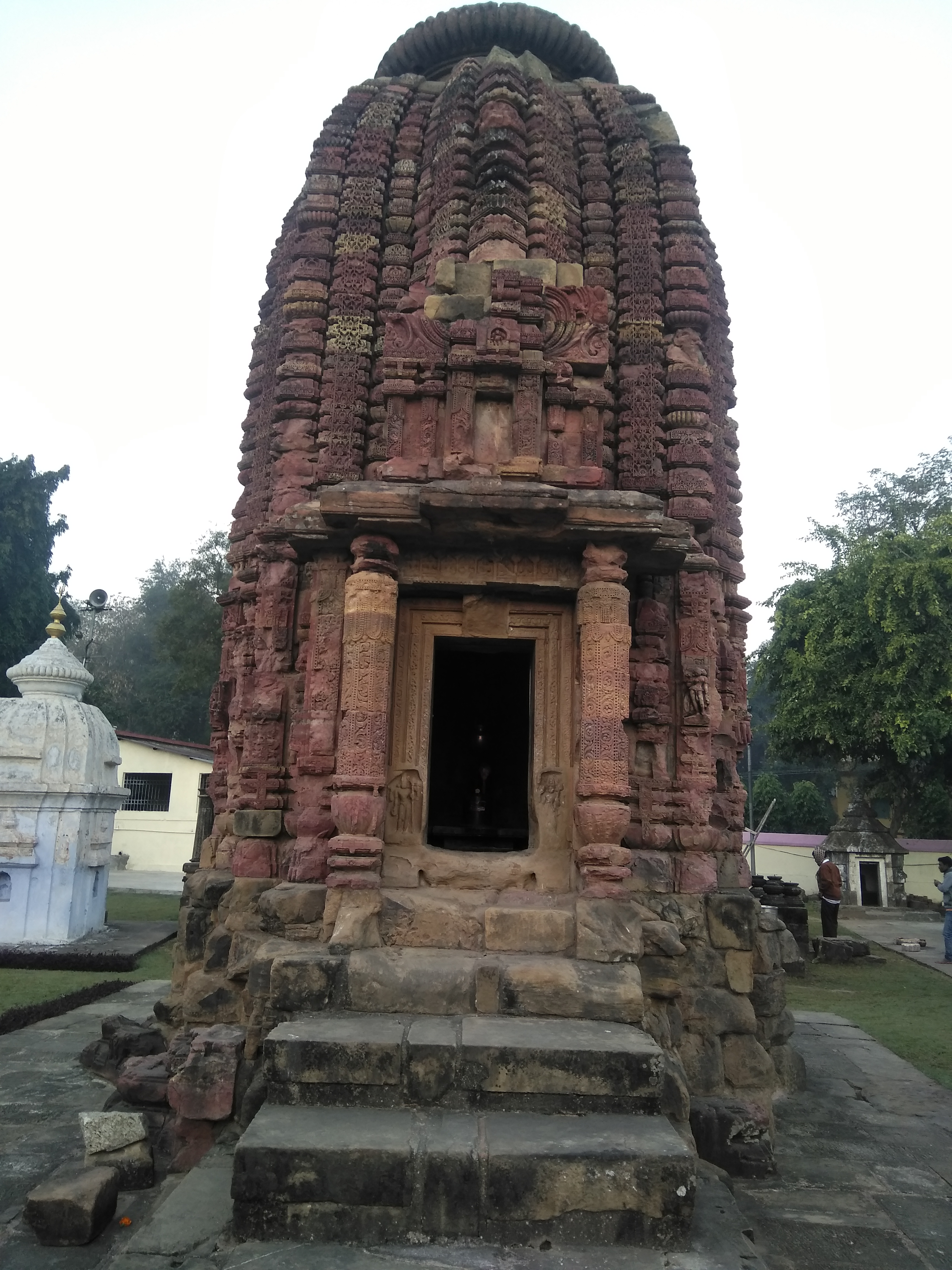 Paschima Somnatha, Bhubanesvara and Kapilesvara temples